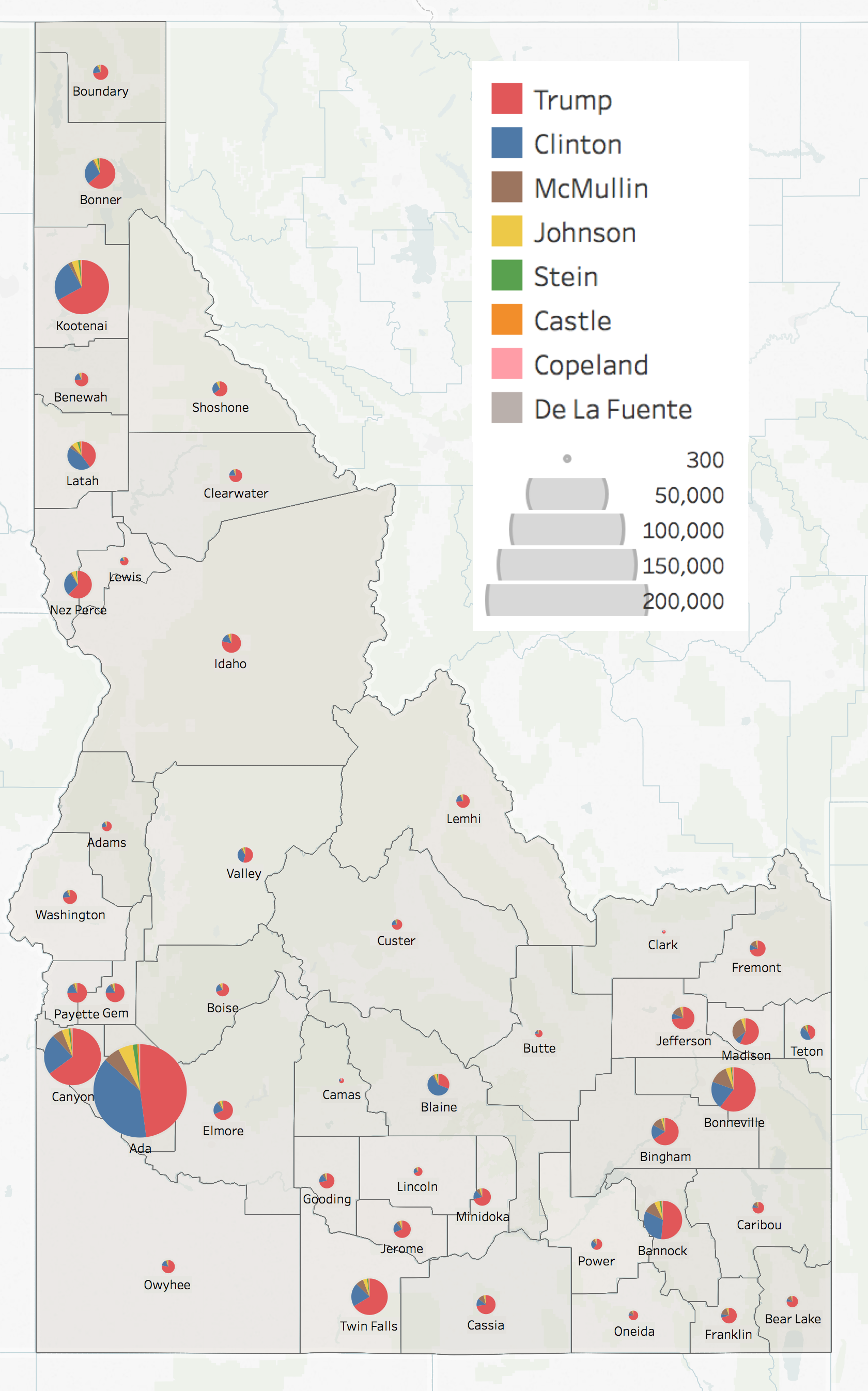 United States presidential election in Idaho, 2016 results by county with size showing number of votes, and color showing candidate. Source: Nov 08, 2016 General Election Results, Idaho Secretary of State.